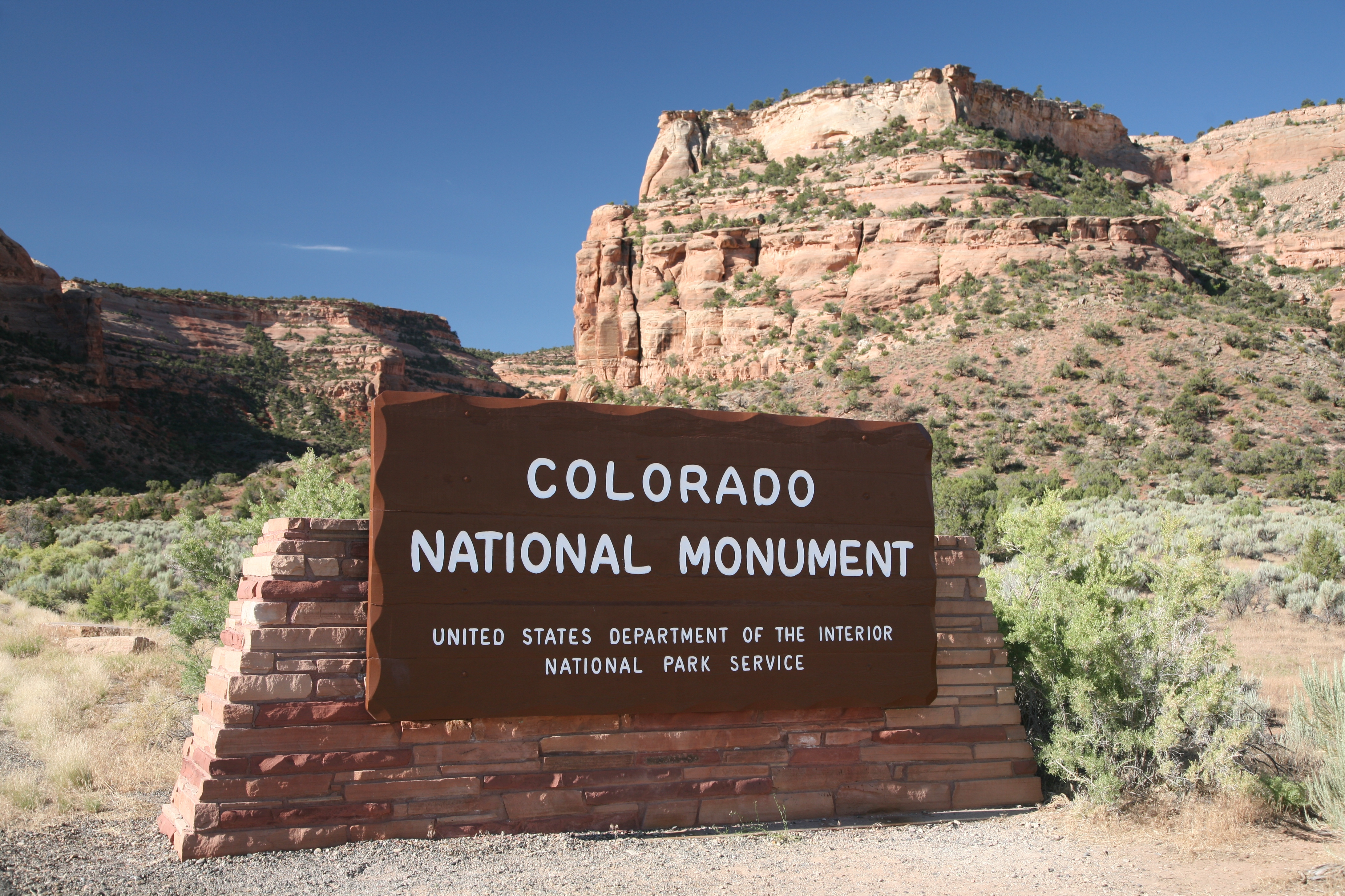 Sign at the Fruita entrance of Colorado National Monument, Colorado.